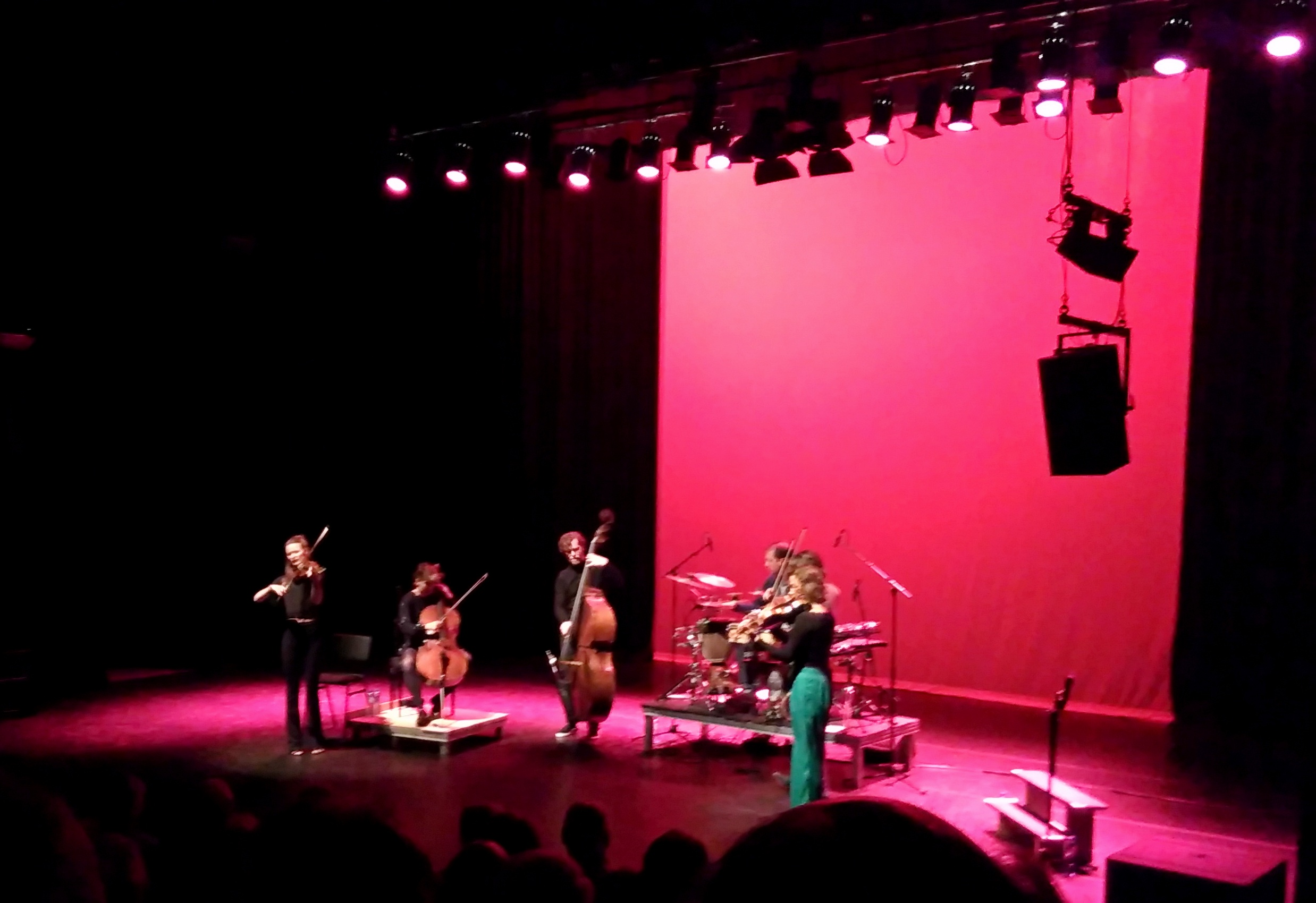 Music ensemble Fuse, during a concert in Ede(NL) in 2019